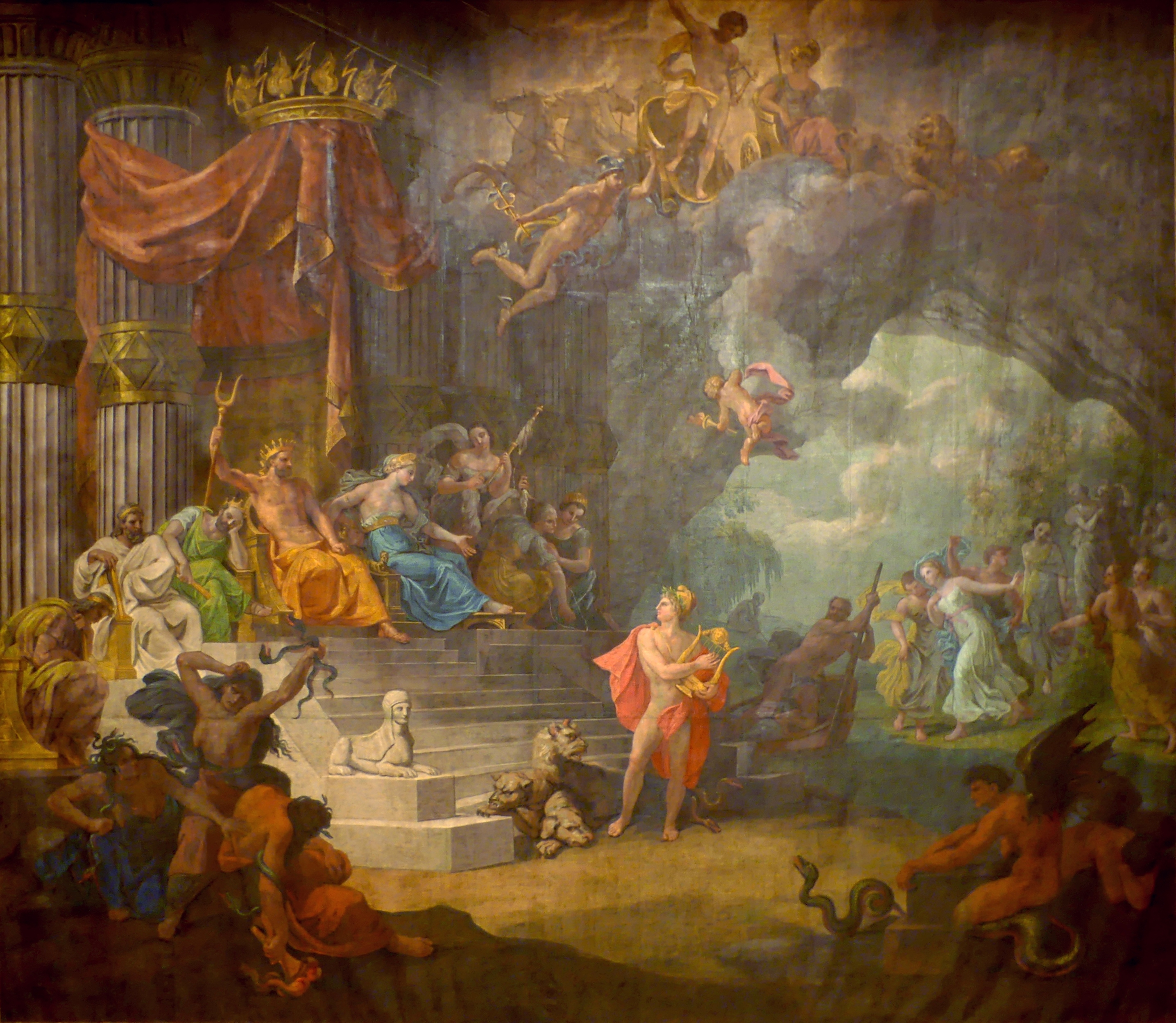 Sight of Orpheus's descent to the underworld, painted on the theater curtain of Chambéry, Savoie, France.